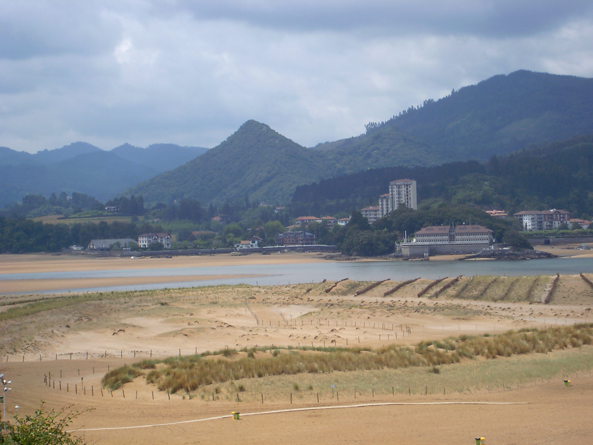 Urdaibai landscape: Laida Beach and Pedernales - Sukarrieta.